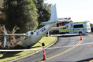 plane crash whangarei